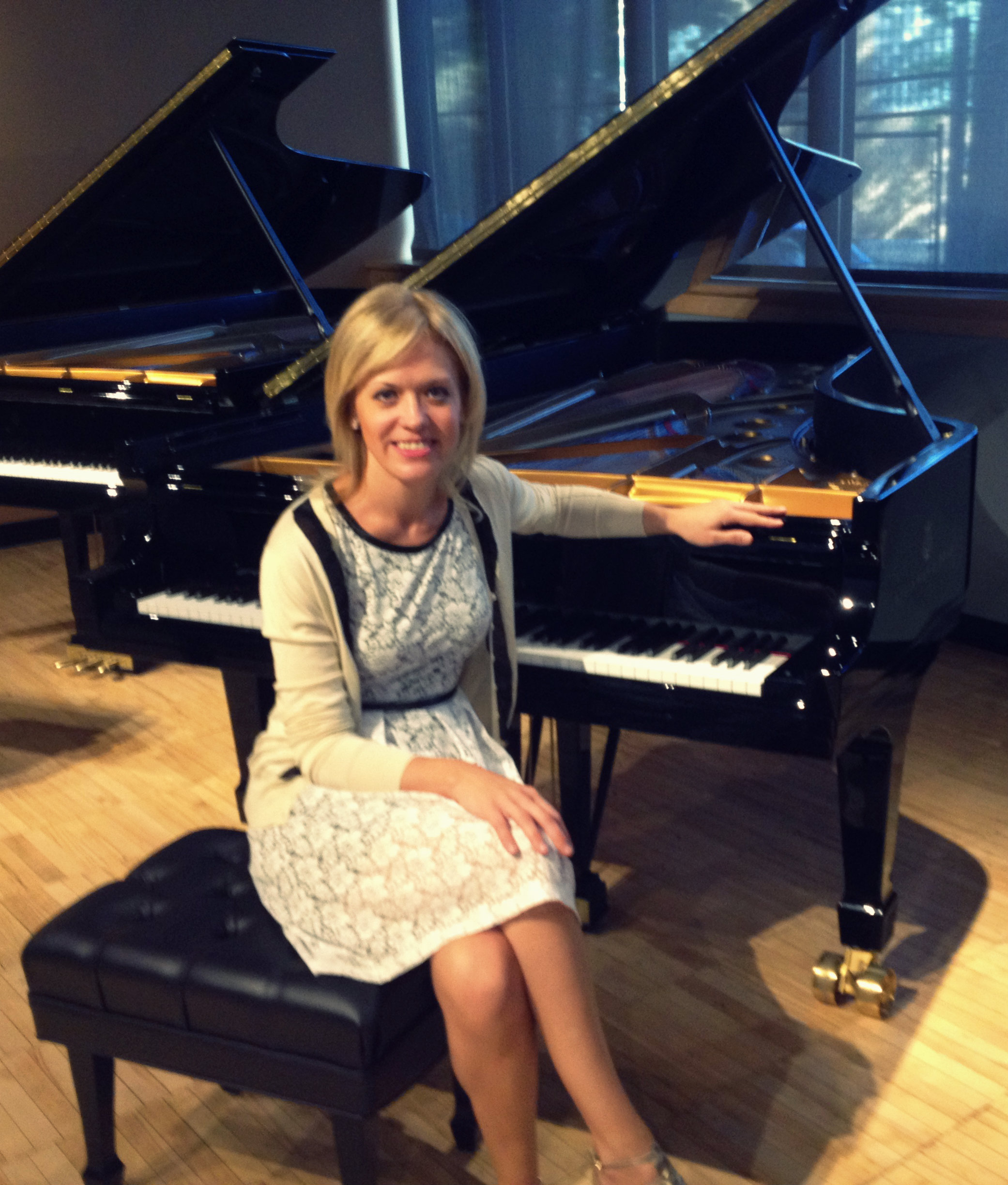 Olga Kern seated at a Steinway piano